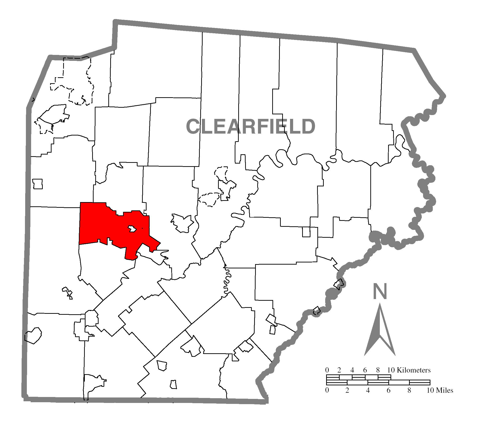 A map of Clearfield County showing Penn Township, Pennsylvania (alternate) highlighted on the map.